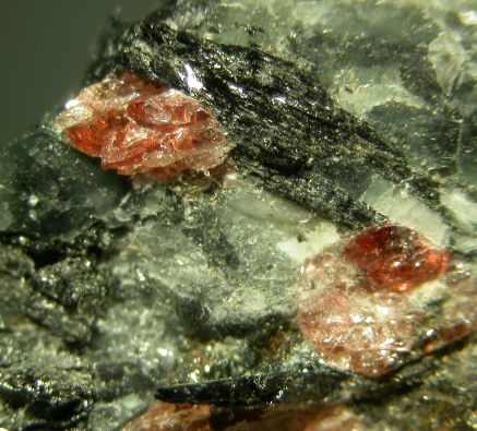 Tiny dark pink grains of rastsvetaevite in matrix. Field of view 3 mm. Specimen and photo Leon Hupperichs. From: Rasvumchorr Mt, Khibiny Massif, Murmansk Oblast, Russia.